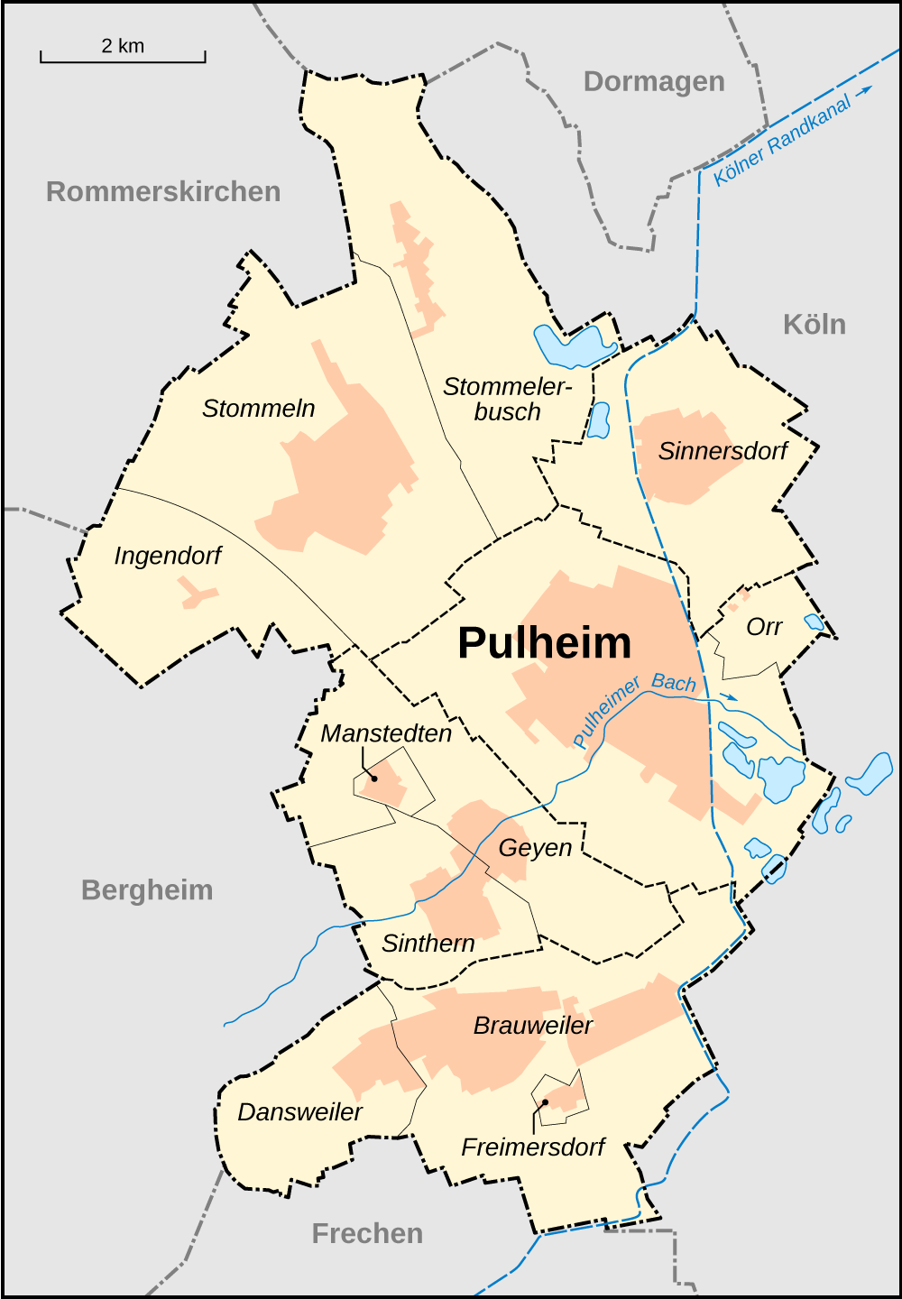 Map of Pulheim